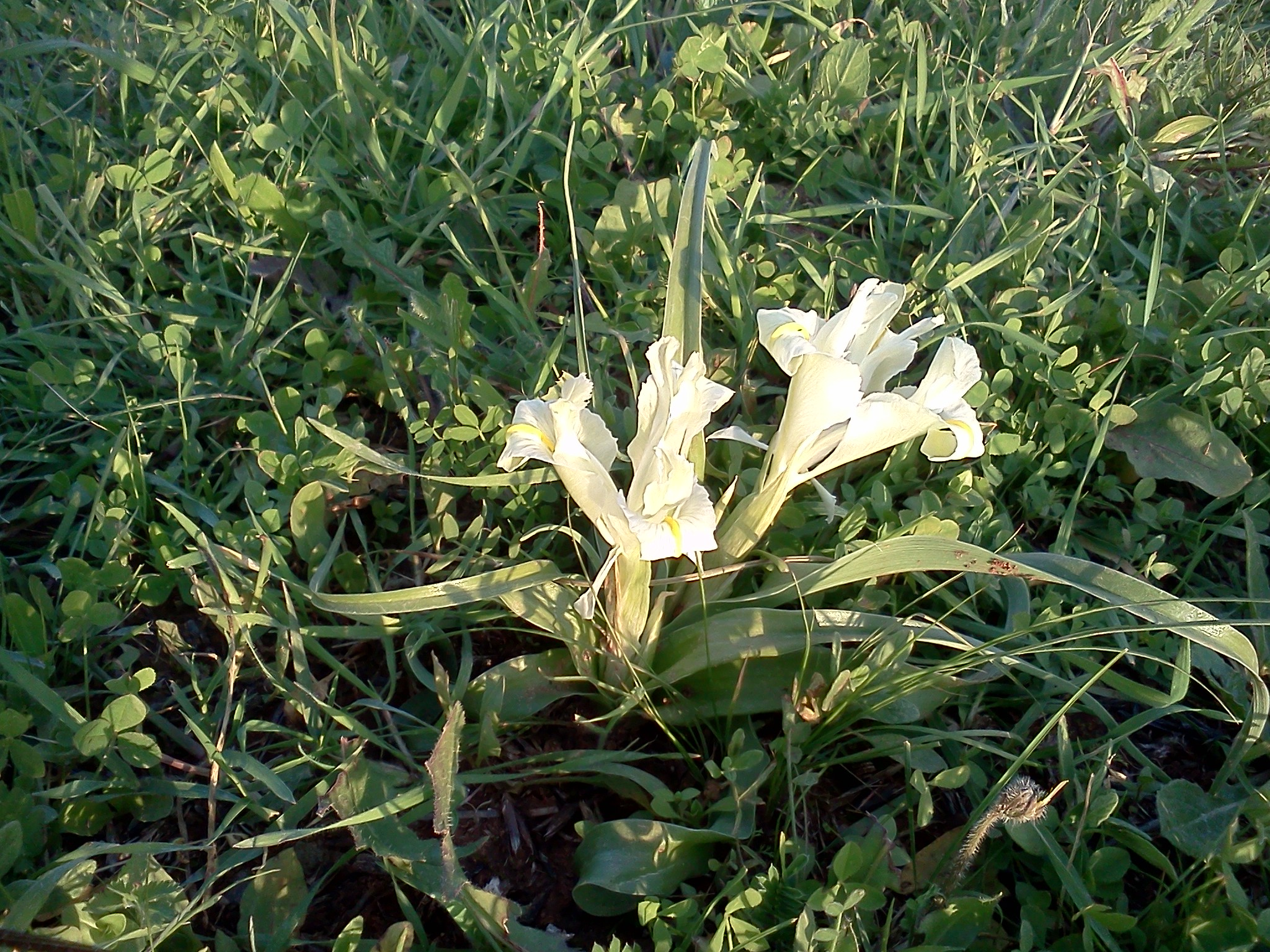 Iris palaestina